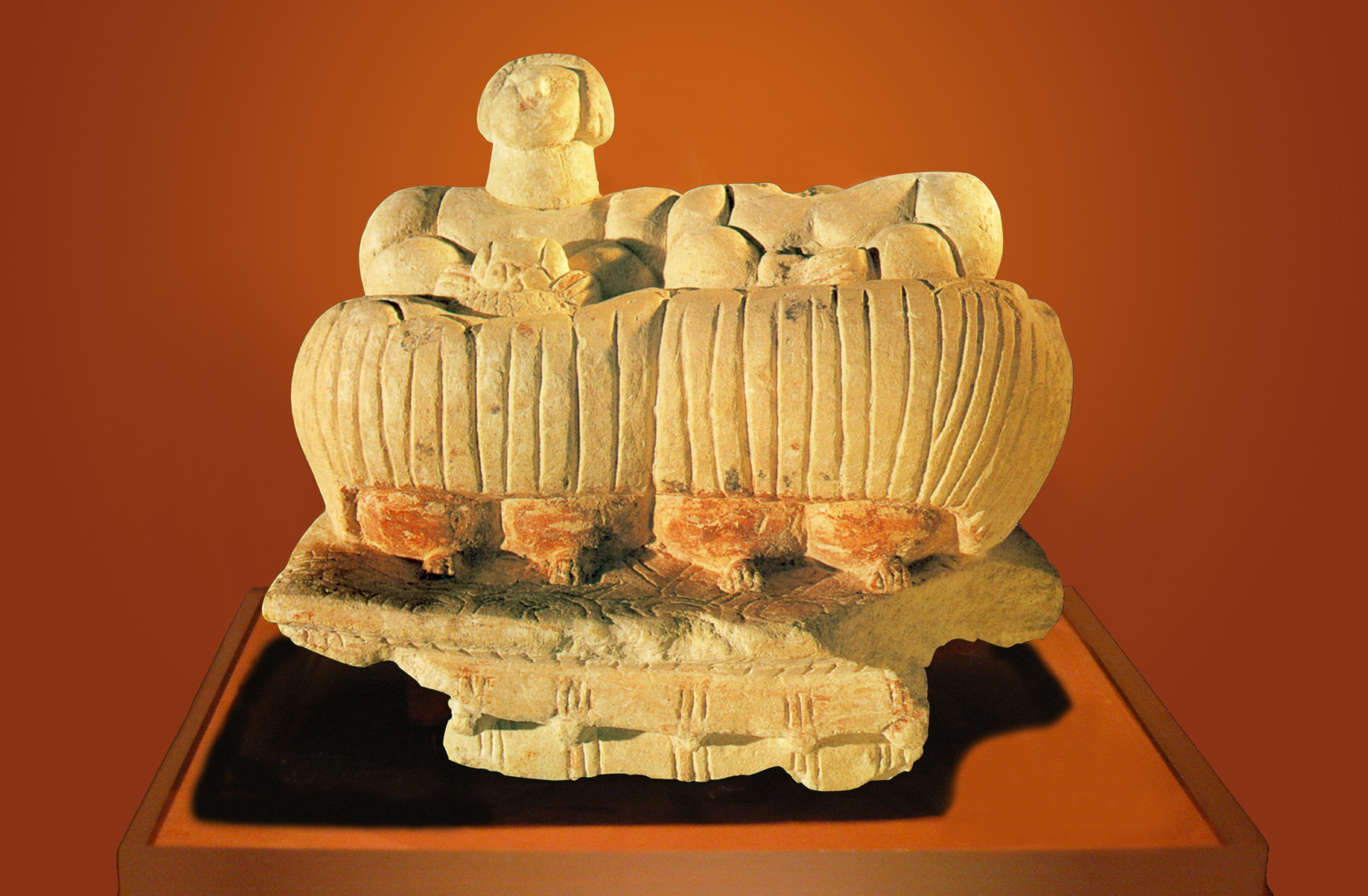 idoles jumelles de l'hypogée de Xaghra This media is about Maltese cultural property with inventory number 26.